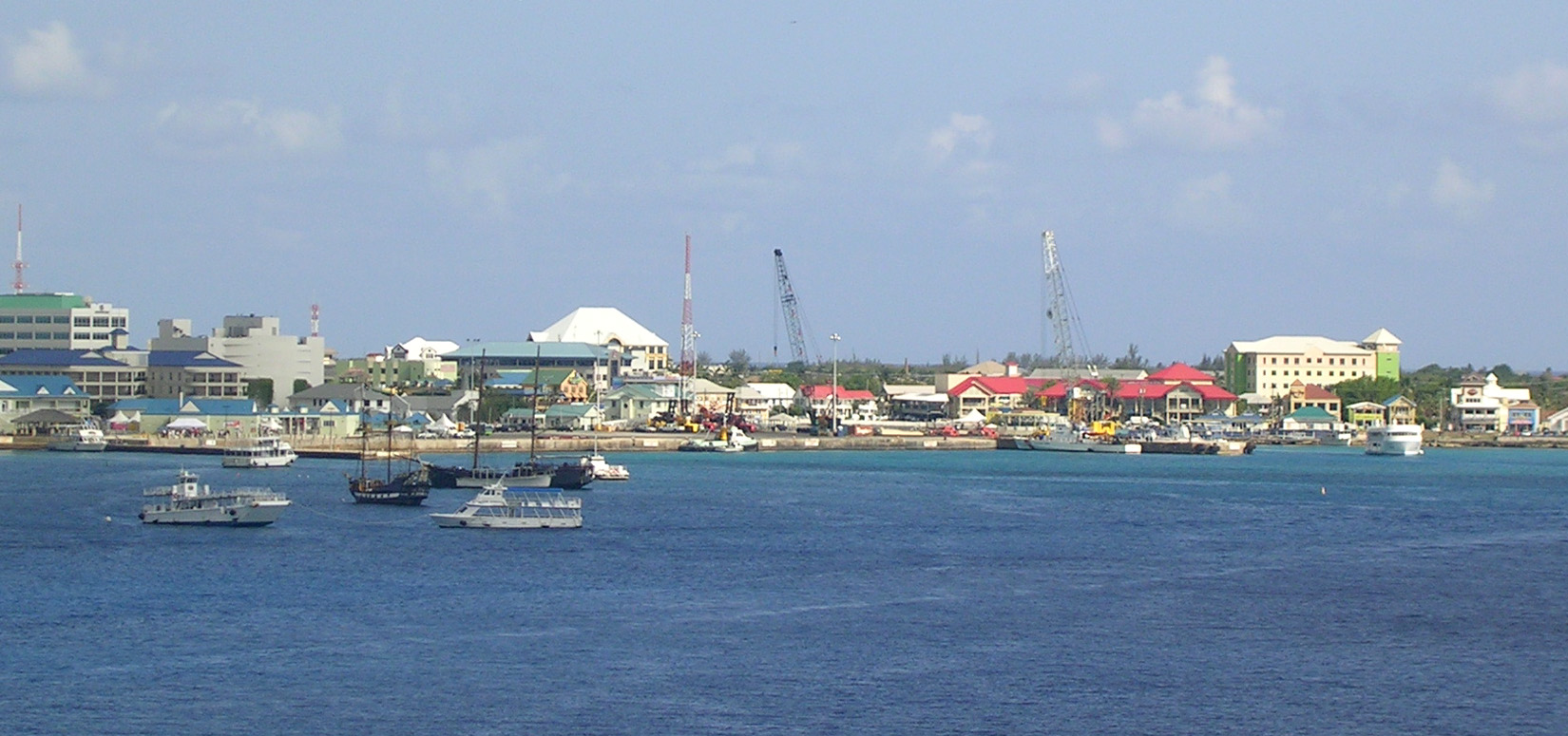 The harbor area of George Town, Grand Cayman, from our cruise ship before our departure. The National Museum is the building with a red roof in the center, just right of the tall, black crane. Our tender landed at the far left, or possibly just to the left of that. The glass bottom boat's home base may be the small green-roofed building in fromt of the large building at the right. The cluster of small ships at the left includes the two "pirate ship" party boats, a George Town tender, and one that I cannot identify at the left. This is not a real panorama, but a single photo with excess sky and water cropped out.